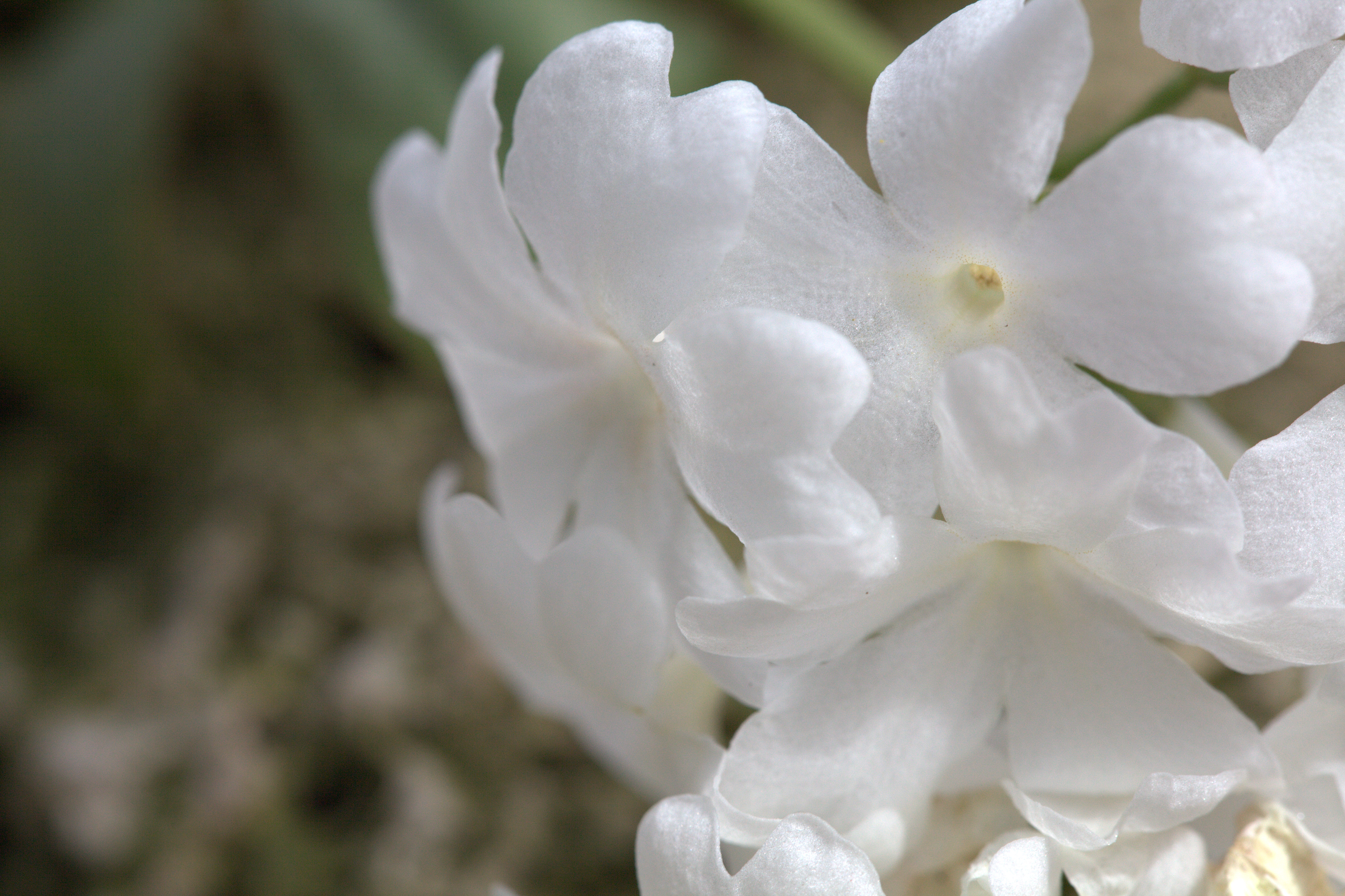 Flowers of Primula pedemontana 'ALBA' at the botanical garden greenhouse in Gothenburg, Sweden.